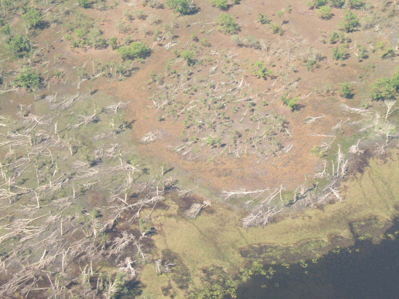 DSCF8405 cyclone monica damage flight over arnhem land